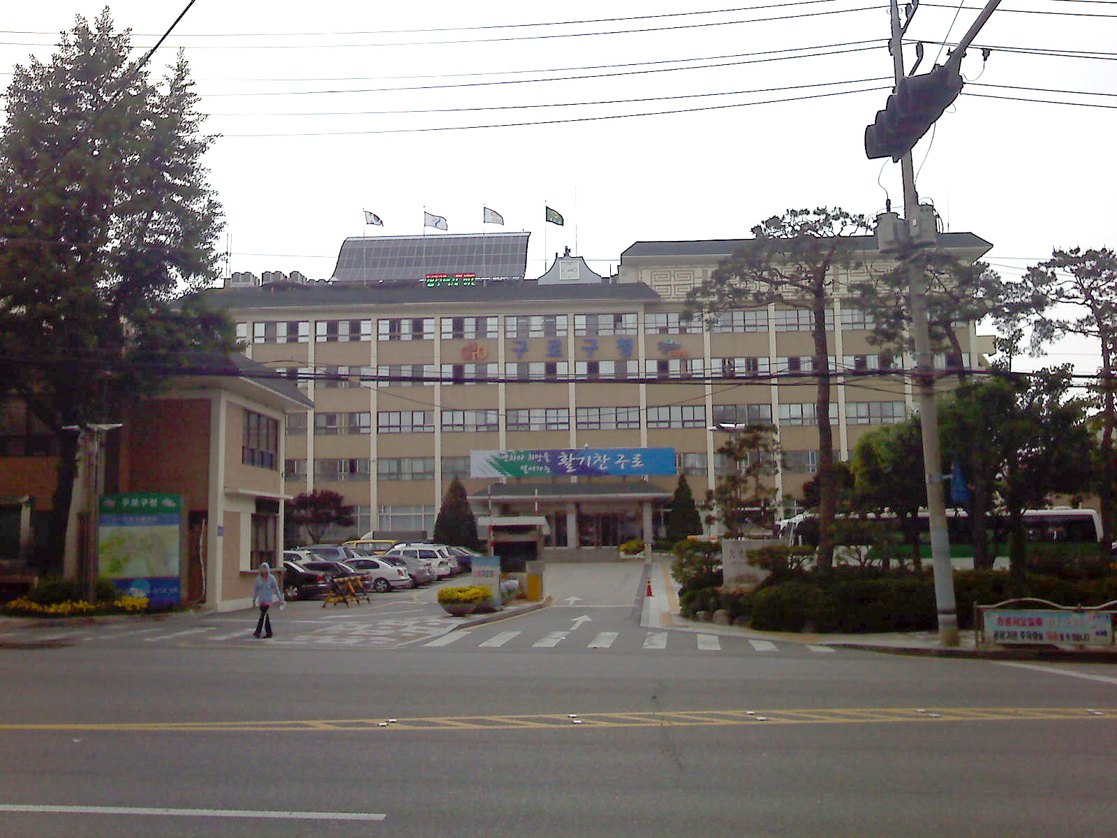 Guro-gu office, Seoul